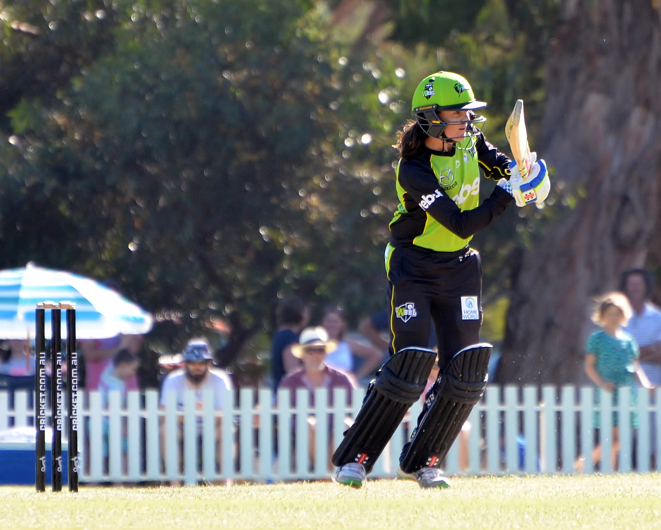 Erin Osborne on her way to 6* for Sydney Thunder (WBBL) against Perth Scorchers (WBBL) at Lilac Hill Park, Perth, Australia.